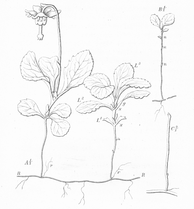 Moneses uniflora; A: a root (R-R) with two shoots; the flowering shoot has two sets of leaves, the other one three (the terminal bud contains a flower. r, side roots at the shoot bases. s, brancts. B: a young shoot with obly one set of leaves. C: a still subterranean shoot.